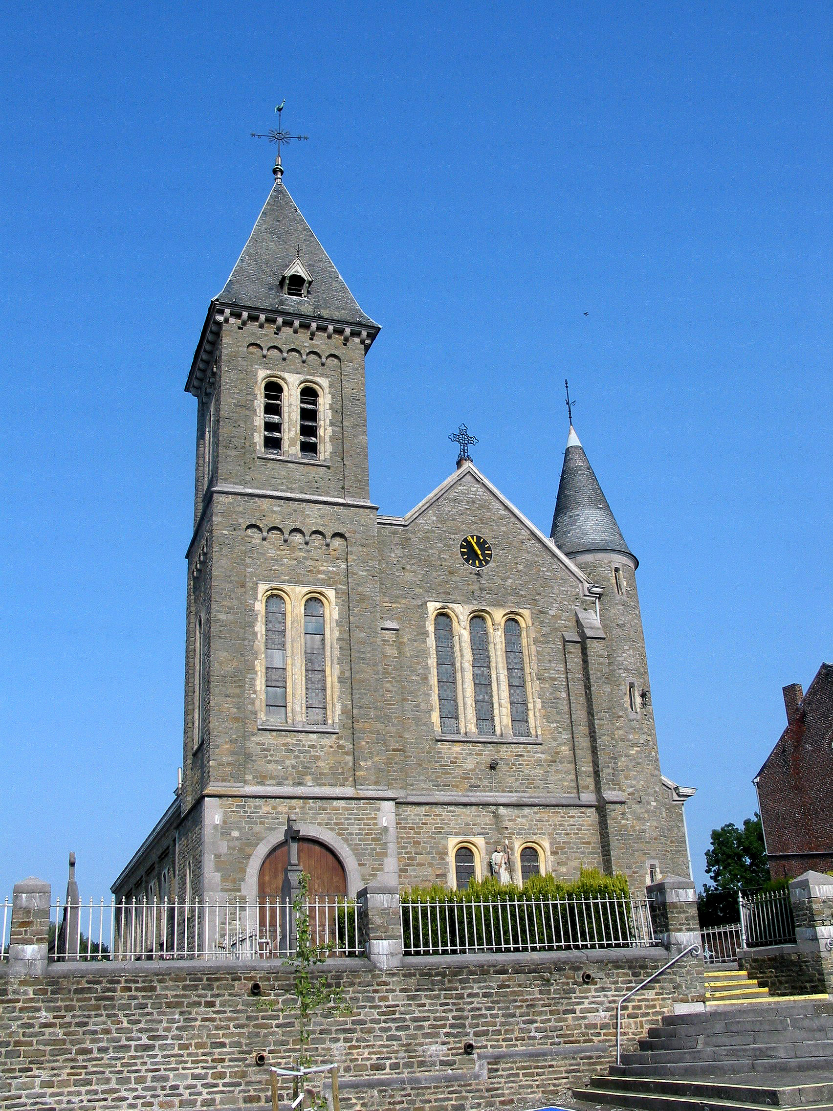 Crisnée (Belgium), the Saint Maurice’s church (1861). Walon: Cruchnèye (Bèljike), l’èglîje Sint-Maurice (1861).